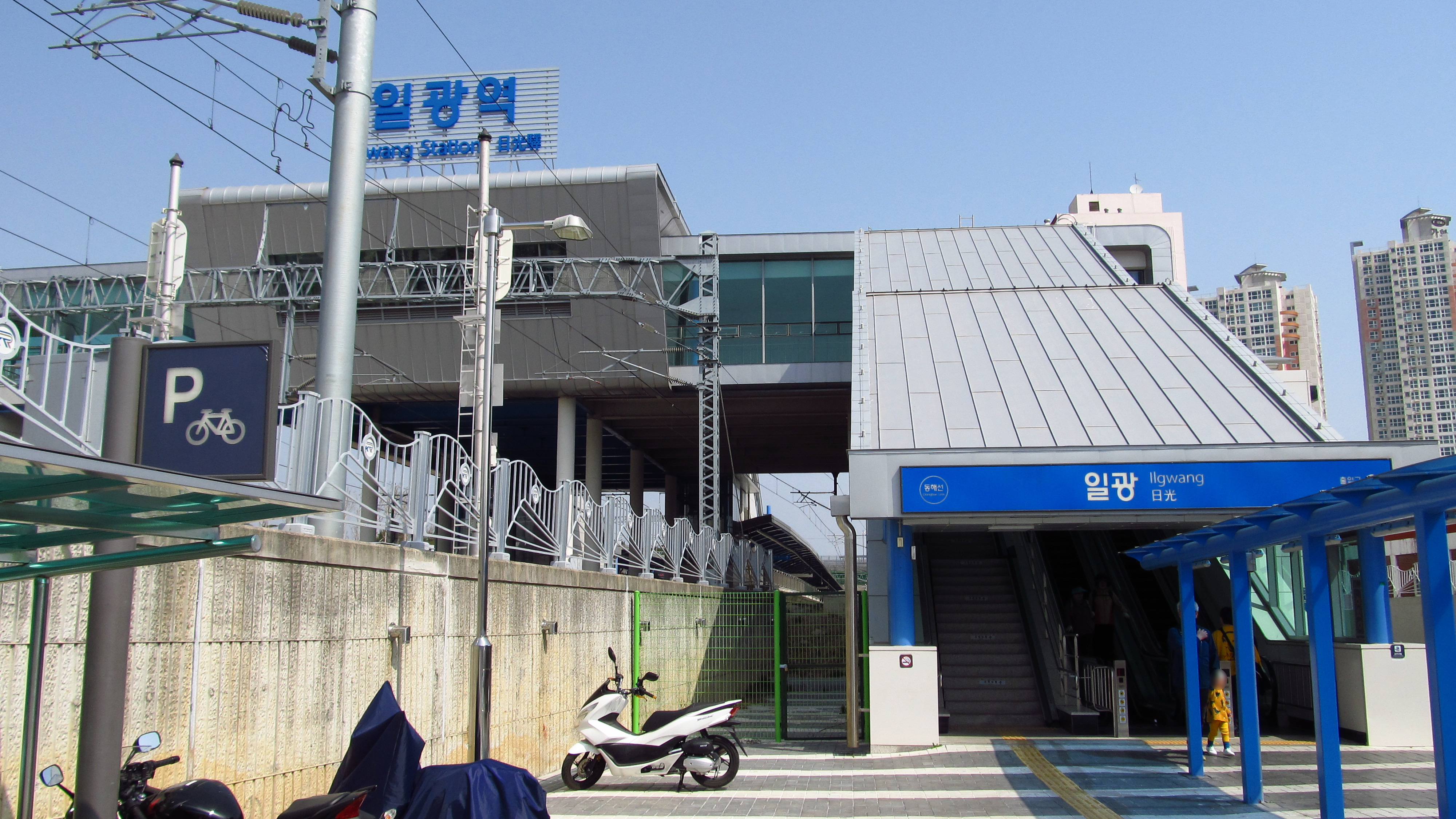 The no.1 entrance to Ilgwang Station on the Donghae Line in Gijang-gun, Busan, Republic of Korea(South Korea)